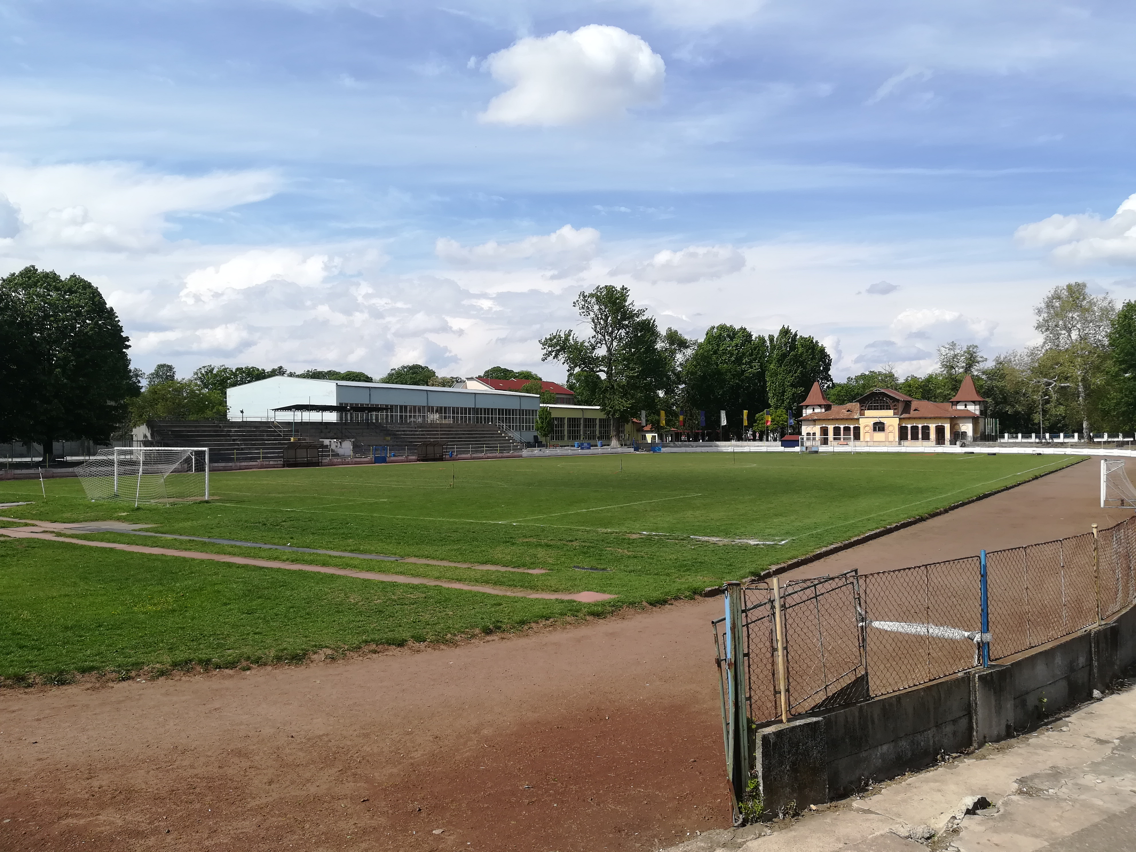 Stadionul Tineretului (Oradea) in 2019.